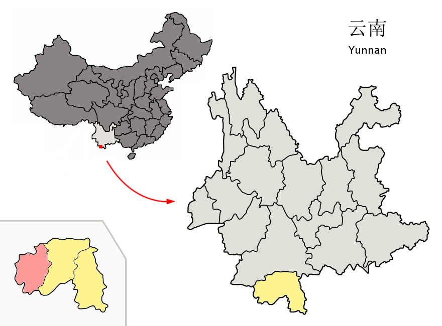 Location of Menghai County (pink) and Xishuangbanna Prefecture (yellow) within Yunnan province of China Map drawn in september 2007 using various sources, mainly : Yunnan province administrative regions GIS data: 1:1M, County level, 1990 Yunnan Counties map from